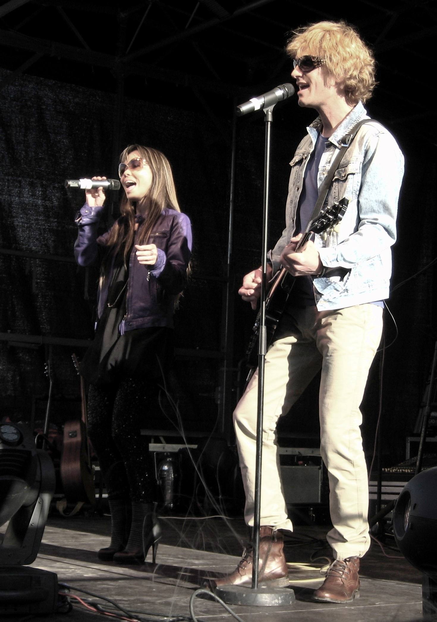 Chanée & N'evergreen are the winners of Dansk Melodi Grand Prix 2010 (Danish Eurovision entry) with the song In a Moment Like This. In the photo: performing the song in Hjørring, Denmark on the Hjørring by night evening